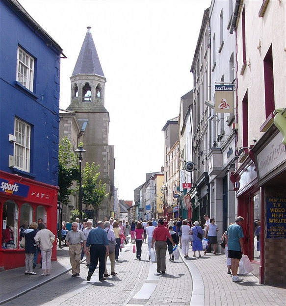 Main Street Wexford